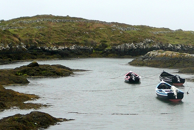 Droim Quay at south end of Garmna (Gorumna) island A remote quay that is home to a few local fishing boats. The headland ahead protects the little harbour from the open sea.